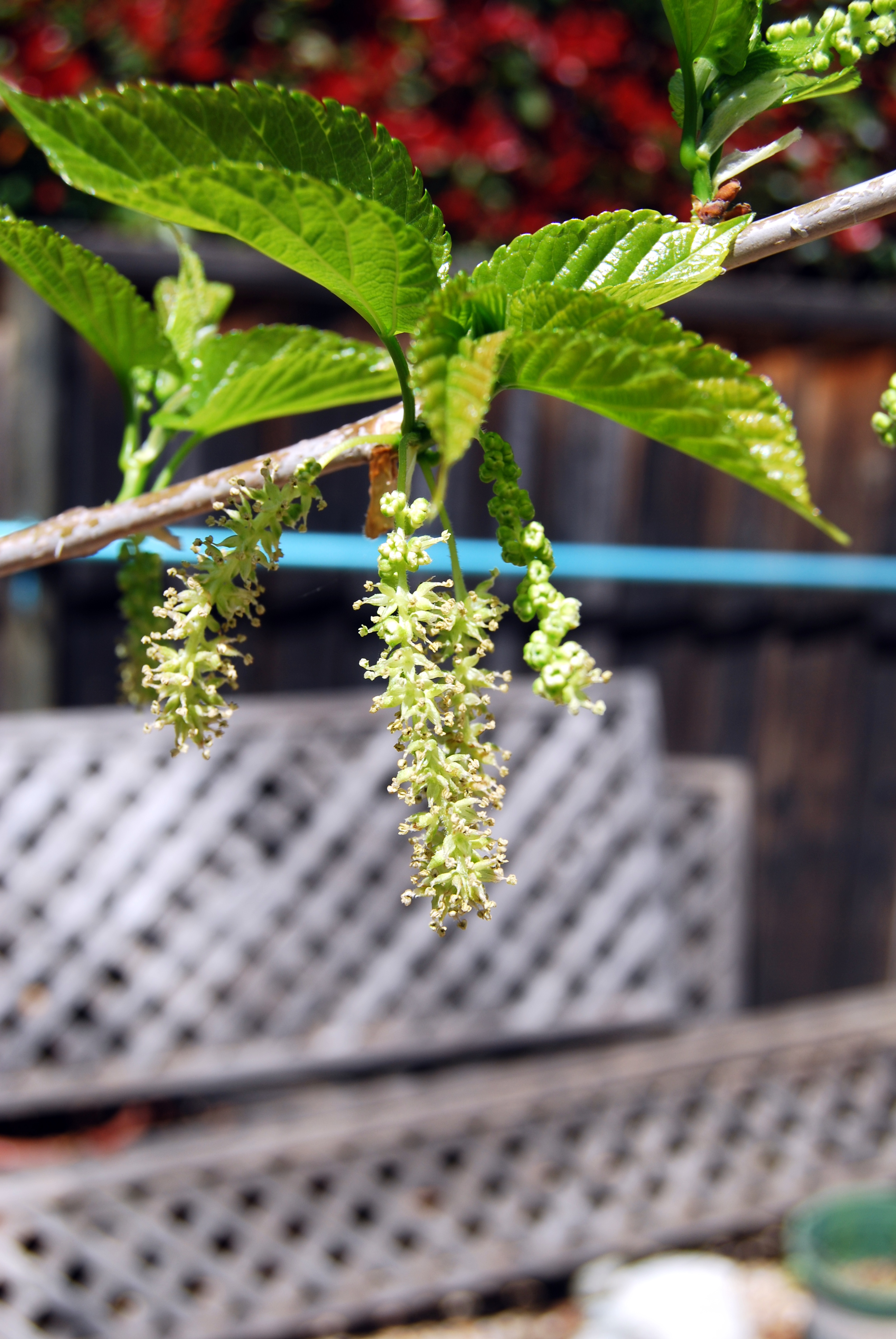 A close-up of young, budding leaves on a Morus alba (White Mulberry) in the Spring.